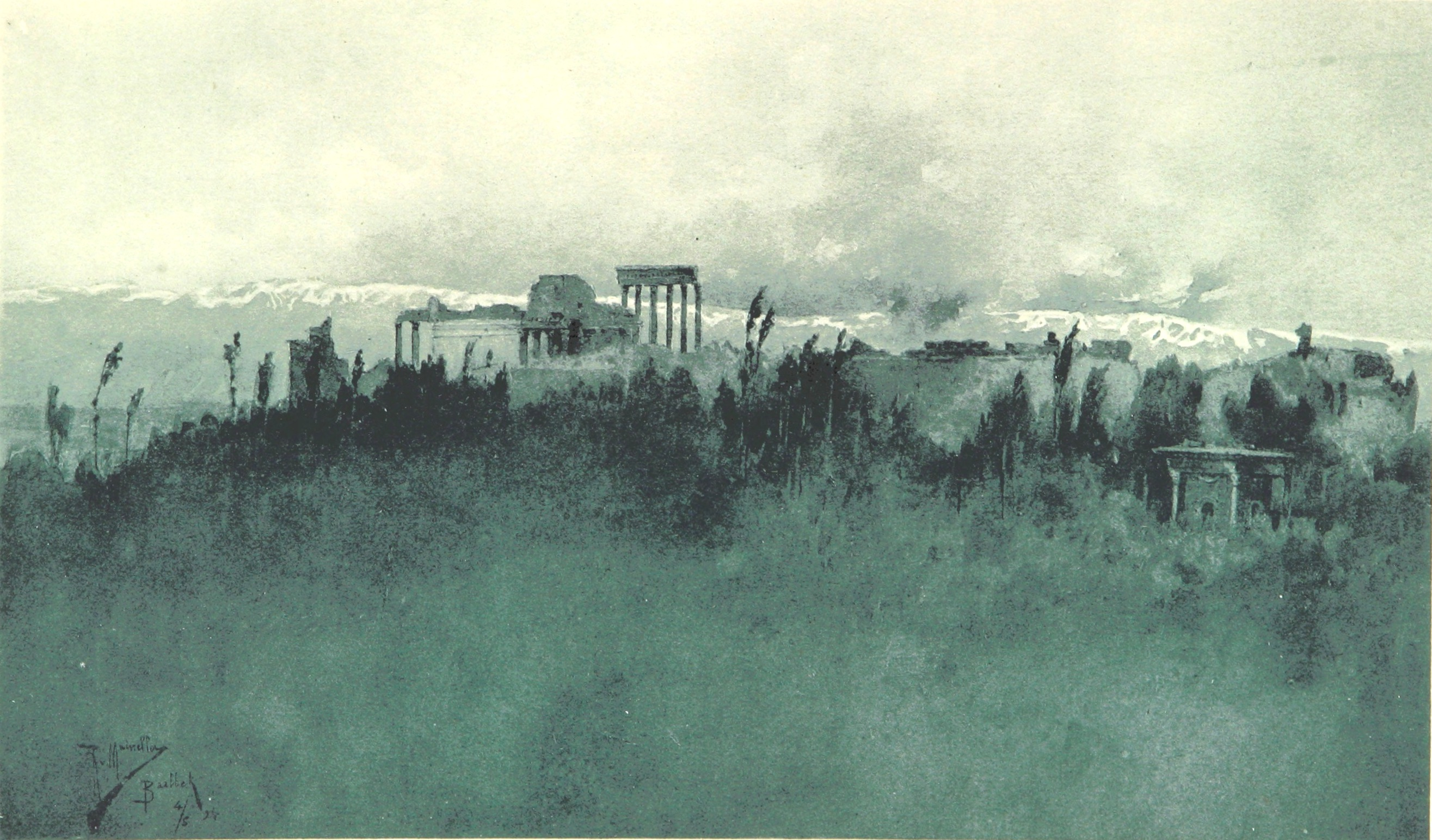 Image taken from: Title: "Pilgerritt. Bilder aus Palästina und Syrien ... Mit Illustrationen von R. Mainella" Author: GONZENBACH, C. von. Shelfmark: "British Library HMNTS 10077.l.19." Page: 297 Place of Publishing: Berlin Date of Publishing: 1895 Issuance: monographic Identifier: 001461219 Explore: Find this item in the British Library catalogue, 'Explore'. Download the PDF for this book (volume: 0) Image found on book scan 297 (NB not necessarily a page number) Download the OCR-derived text for this volume: (plain text) or (json) Click here to see all the illustrations in this book and click here to browse other illustrations published in books in the same year. Order a higher quality version from here.